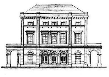 Frederik Willem van Gendt. Design for a theatre in Arnhem, façade. 1864-1865 (execution; demolished 1935).